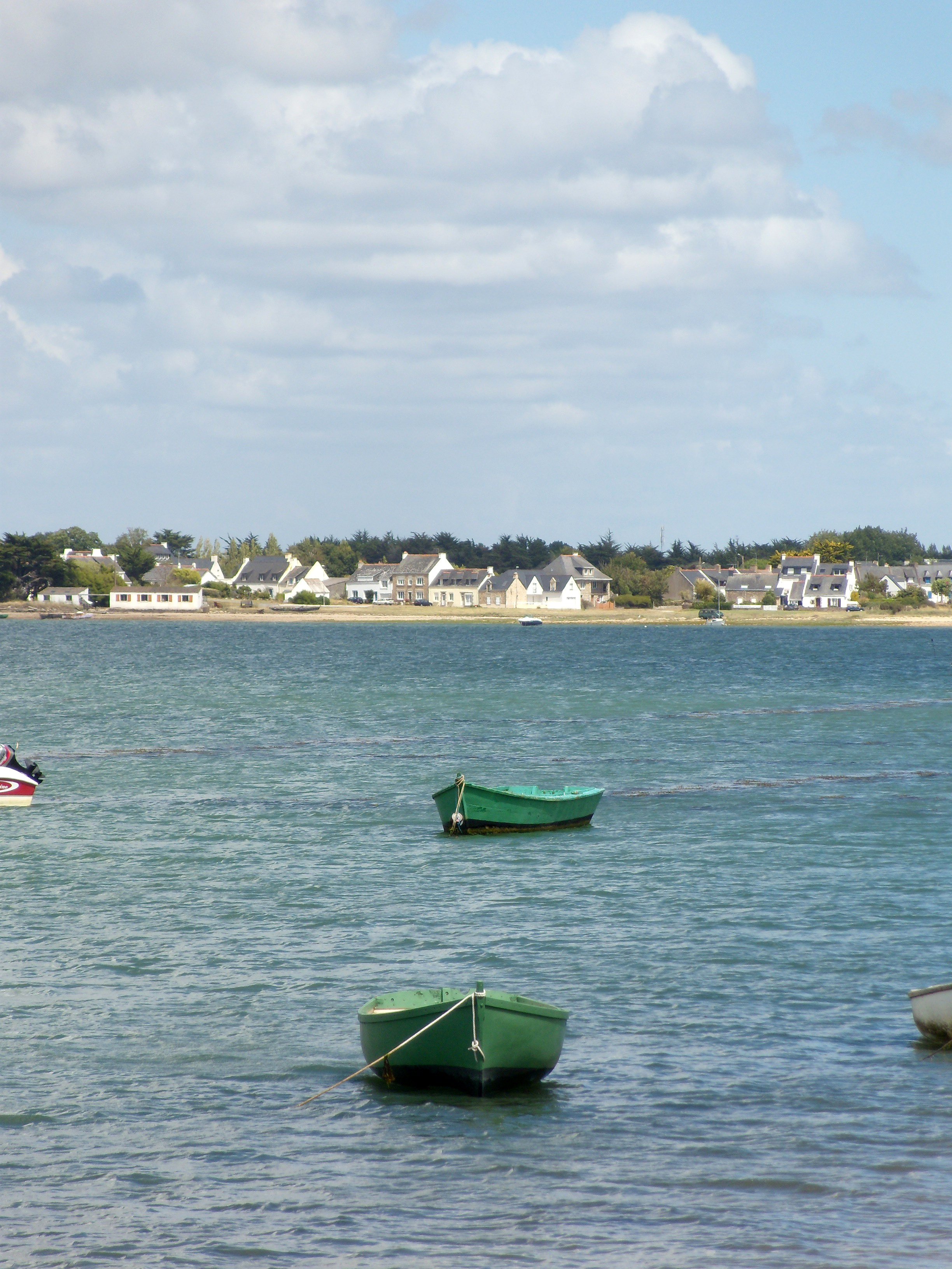 River of Pénerf, in the Morbihan department of Brittany in north-western France